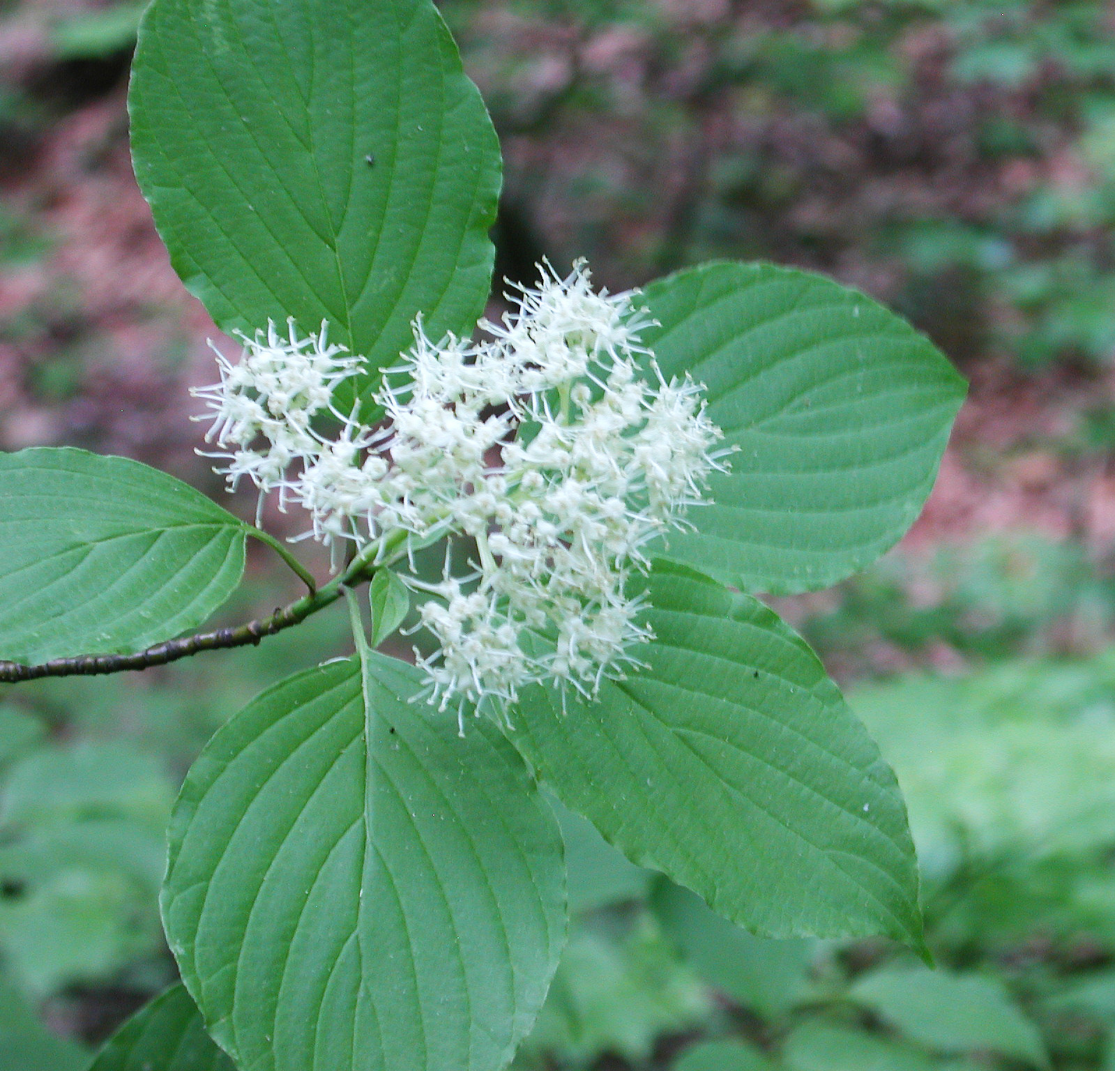 Flowers of the pagodatree dogwood Cornus alternifolia. Foto taken at Kings Switch Tunnel, western Athens County, Ohio